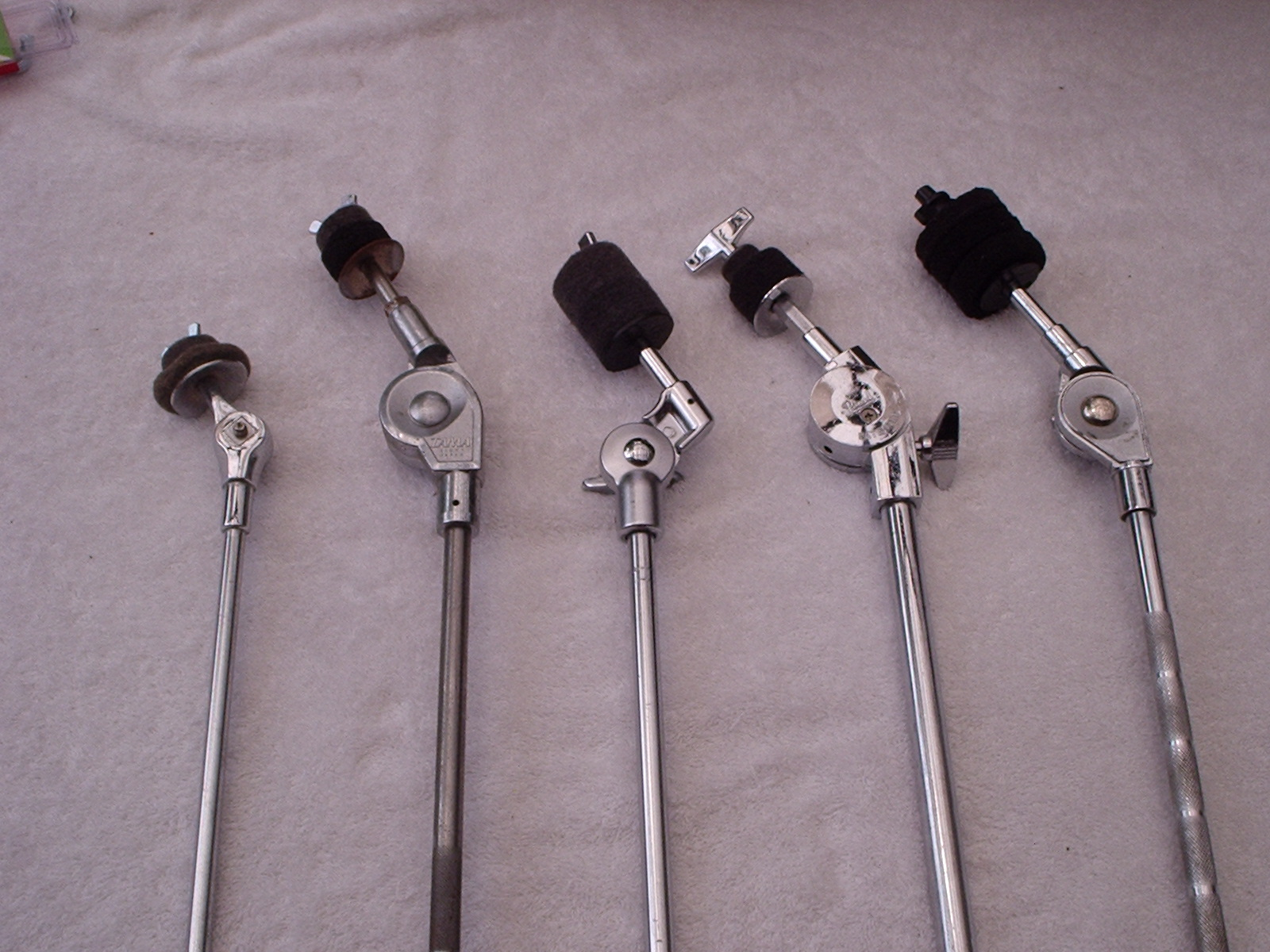 Five cymbal stand tops: Maxwin, Tama, Yamaha, Pearl, Pearl. See also File:Cymbal stand buttons and disassembled bolts.JPG